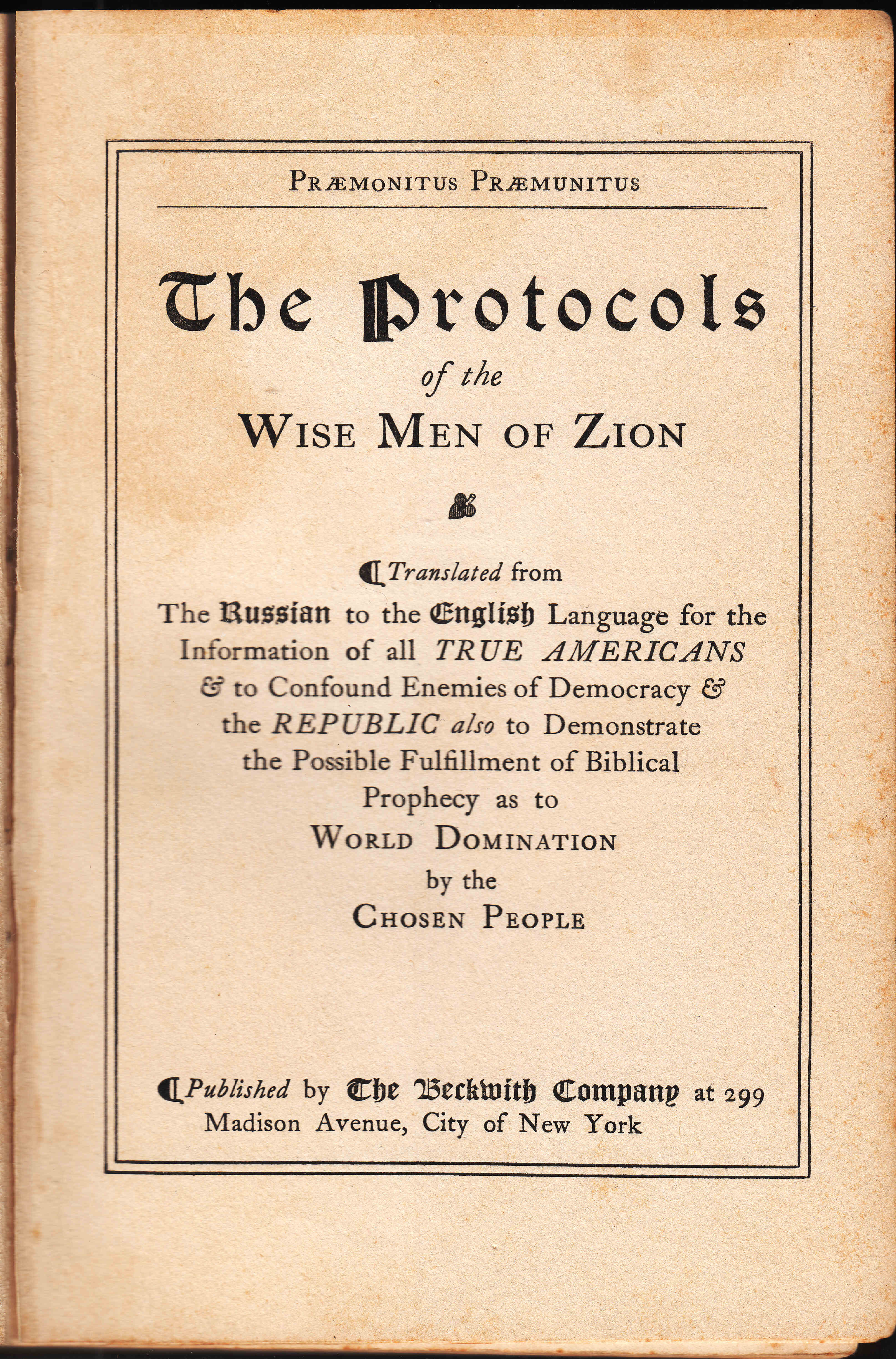 Praemonitus Praemunitus - The Protocols of the Wise Men of Zion - The Beckwith Company (1920)